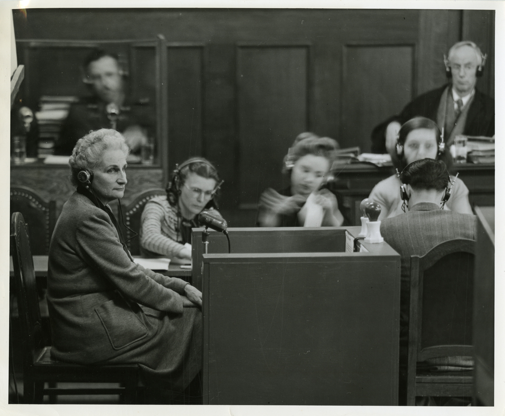 "Prosecution witness Hanna Solf sits on the witness stand at the Nuremberg Trials. [...] Inscription: OMGUS MILITARY TRIBUNAL - CASE THREE OMT-III-W-28 / Mrs. Hanna Solf, prosecution witness against Lautz and the Peiple's [sic.] Court. Widow of Dr. Wilhelm Heinrich Solf, foreign minister in last cabinet during World War One and German ambassador to Tokyo from 1920-28, who was known throughout the world war for humanitarian ideology and belief in the rights of the inidividual. After the Nazis came to power in 1933, he and Mrs. Solf worked to help those who were persecuted, particularly on racial and religious grounds. After his death, Mrs. Solf carried on his work. She was arrested by the Gestapo on 12 January 1944, ostensibly because of sentiments she had expressed at a tea she had attanded several months before. Was sent to Ravensbrueck and kept there in solitary confinement until June, being subjected to continual ill-treatment, long and brutal interrogations, and threats and intimidations. On 30 June was taken to Moabit prison in Berlin, and on the same day was handed indictment signed by defendant Lautz for trial before People's Court. Was allowed to talk to counsel (Dr. Rudolf Dix) for about an hour that evening, which was only time she saw him before the trial. Trial began next morning (1 July 1944), with Freisler presiding, and lasted until late at night when she was ordered to leave the court. Was taken back to Ravensbrueck, where conditions became increasingly bad, and almost unbearable after the 20 July. Second trial was scheduled for mid-December, then postponed until January, then postponed again until February 8. As result of Freisler being killed in air raid, postponed a last time until April 28. By that time Berlin in a state of siege and in ensuing complete disorganization she managed to get released." -- Photo 14/15 April 1947